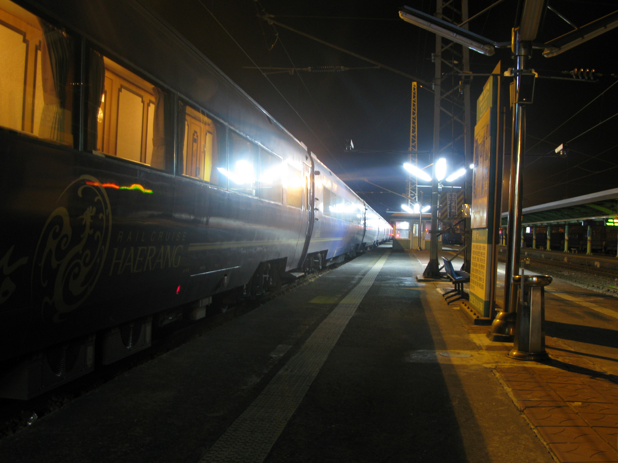 Donghae Station with Haerang (Korail's Sightseeing Train)